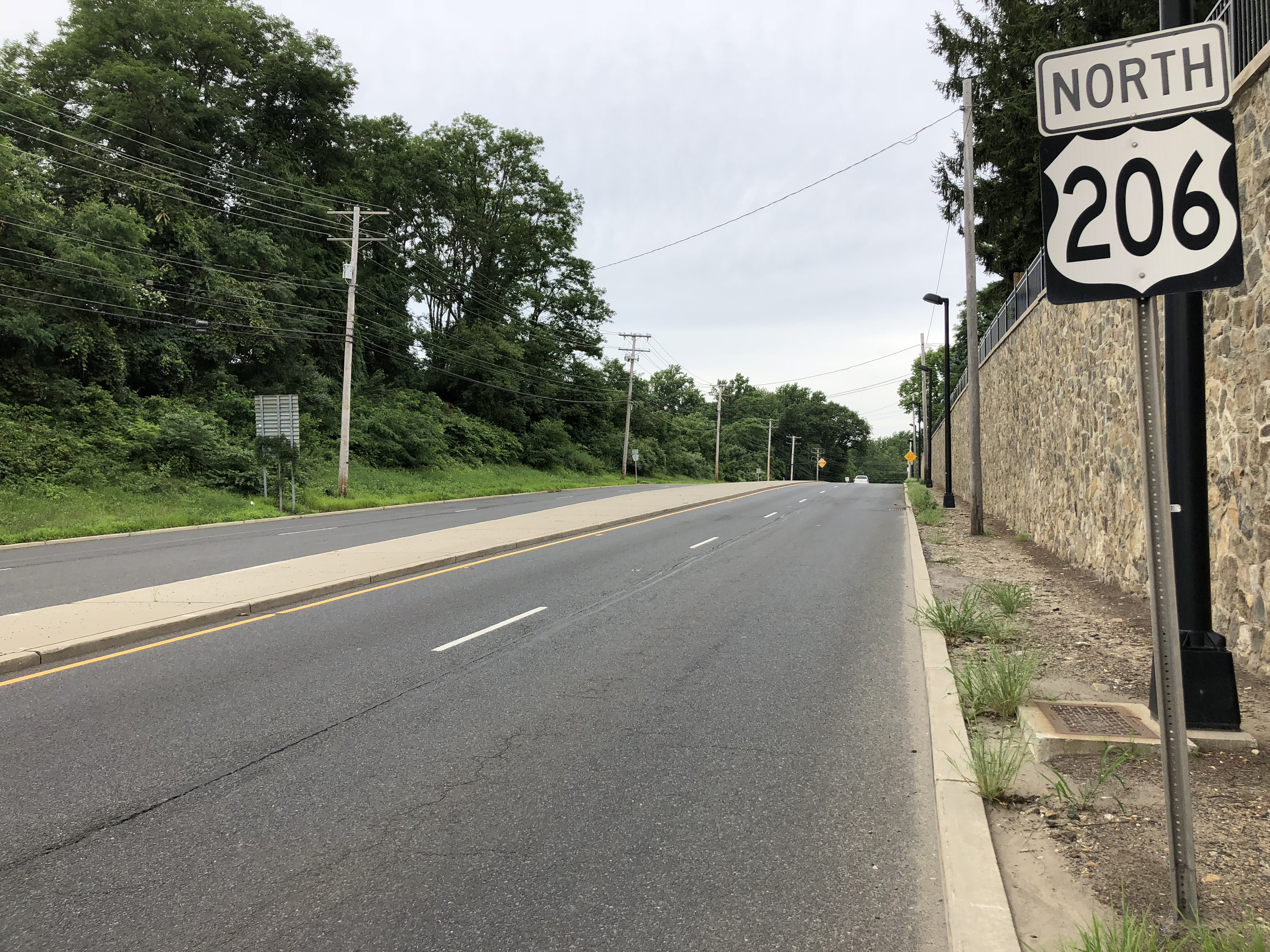 View north along U.S. Route 206 just north of Morris County Route 513 (Main Street) in Chester, Morris County, New Jersey